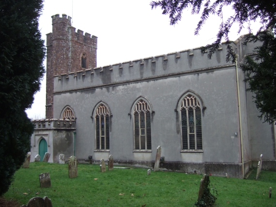 St Ida's church, Ide